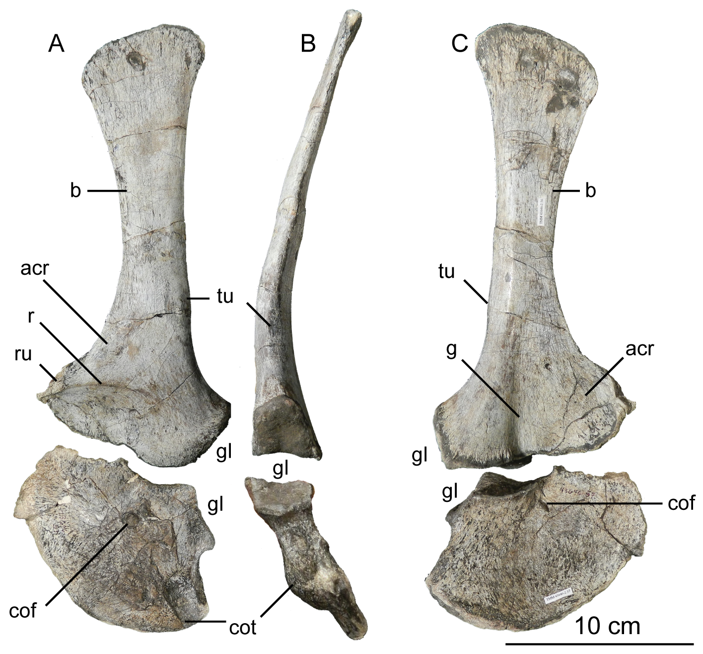 Holotype left scapula and coracoid (A-C) of Sarahsaurus aurifontanalis. There is an oval depression on the dorsolateral surface of this scapula that may represent a tooth mark of a scavenging theropod such as Dilophosaurus. A, D, G- lateral view; B, E, H- anterior view; C, F, I- medial view. Abbreviations: acromion (acr), blade (b), coracoid foramen (cof), coracoid tubercle (cot), depression (d), groove (g), glenoid (gl), ridge (r), rugosity (ru), tuberosity (tu).